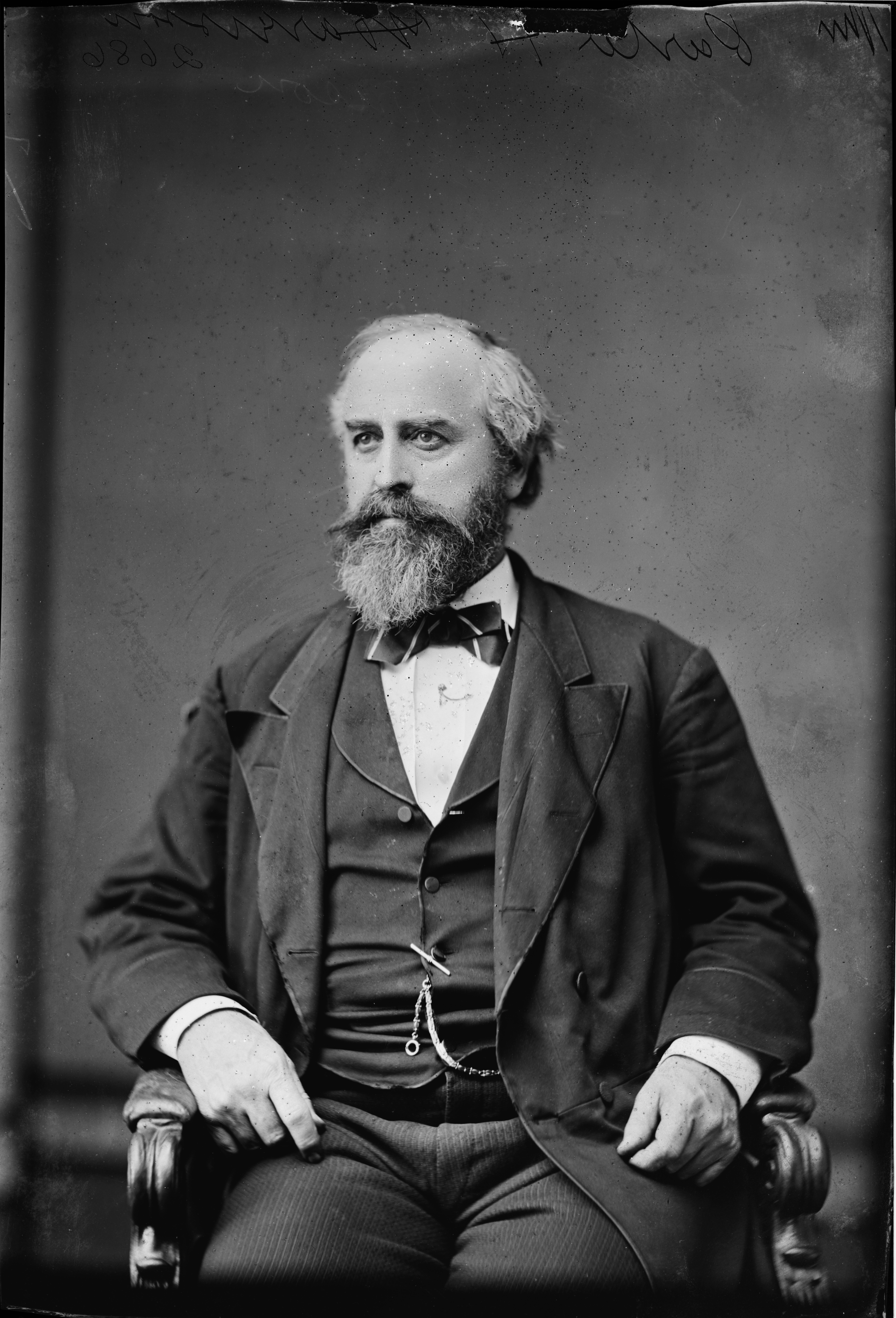 Carter Harrison, Sr.. Library of Congress description: "Harrison, Hon. Carter H. of Ill."